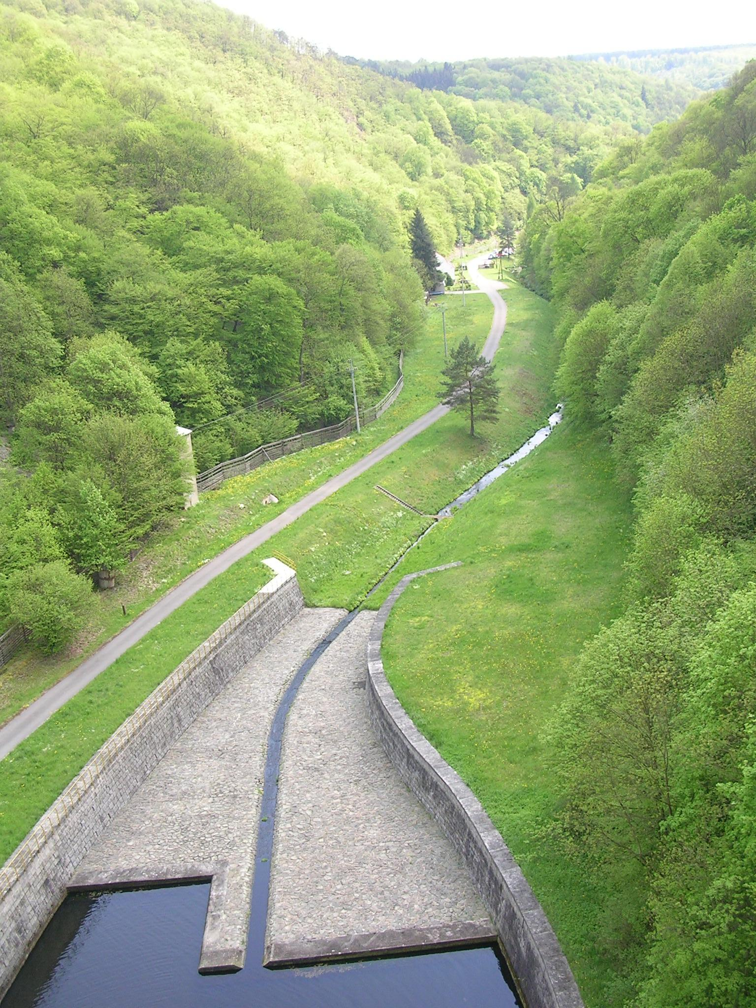 Klíčava under dam and reservoir, Zbečno + Běleč, the Czech Republic.